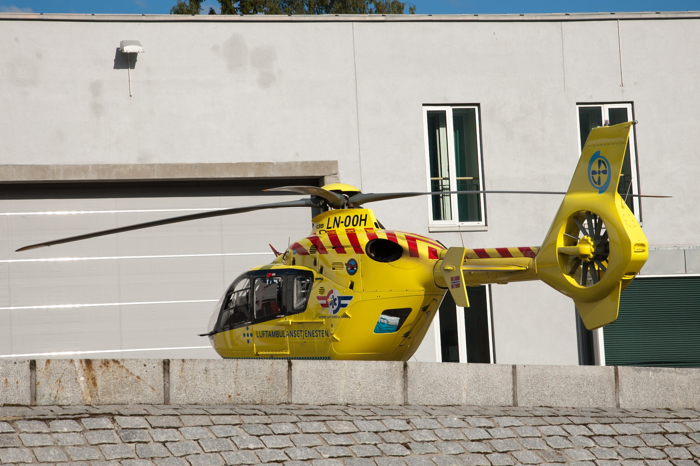 Norsk Luftambulanse, Eurocopter EC 135 P2, LN-OOH